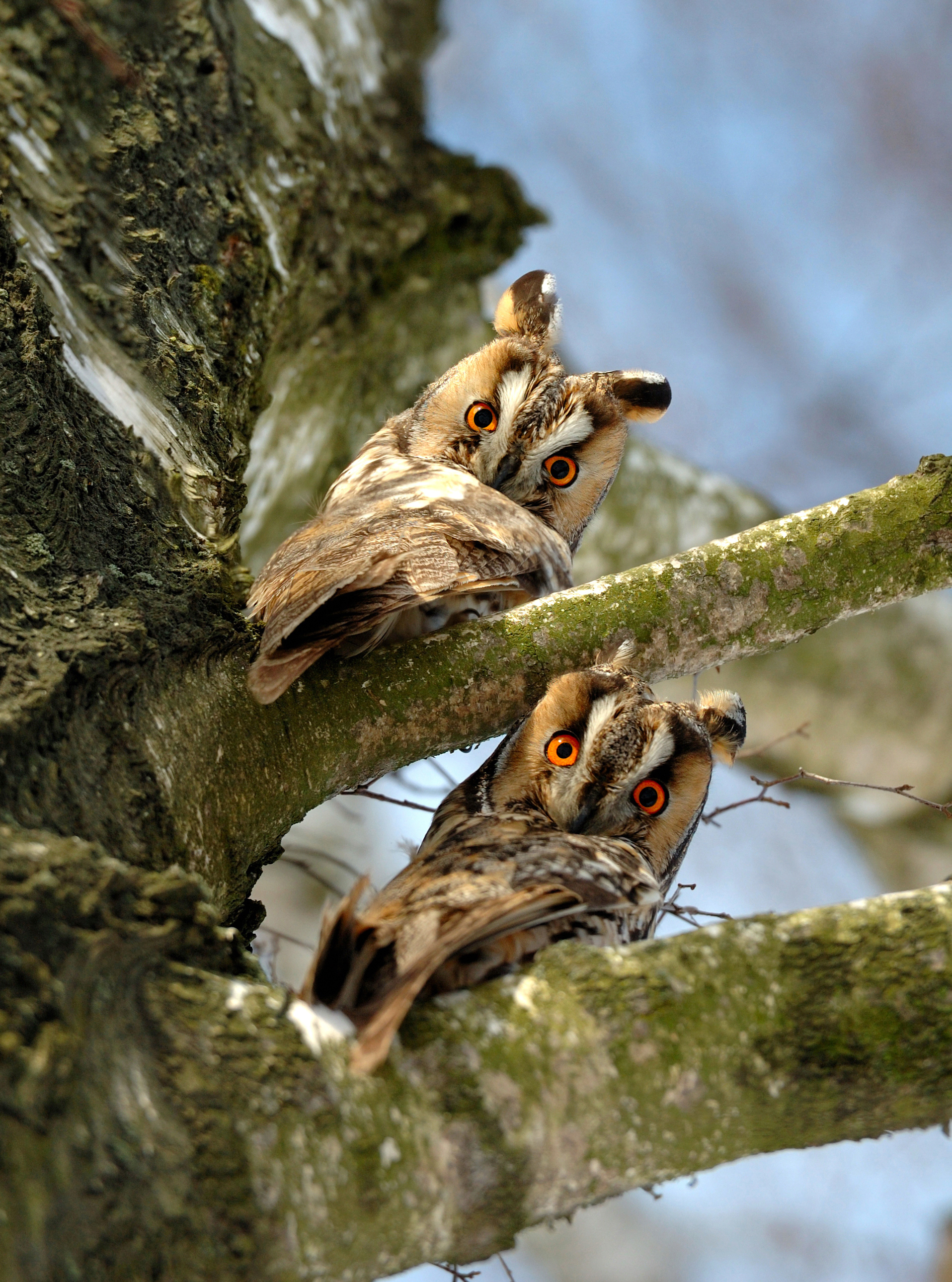 Two young long-eared owls (Asio otus), in Kremenets Hills natural heritage site. Ternopil Oblast.